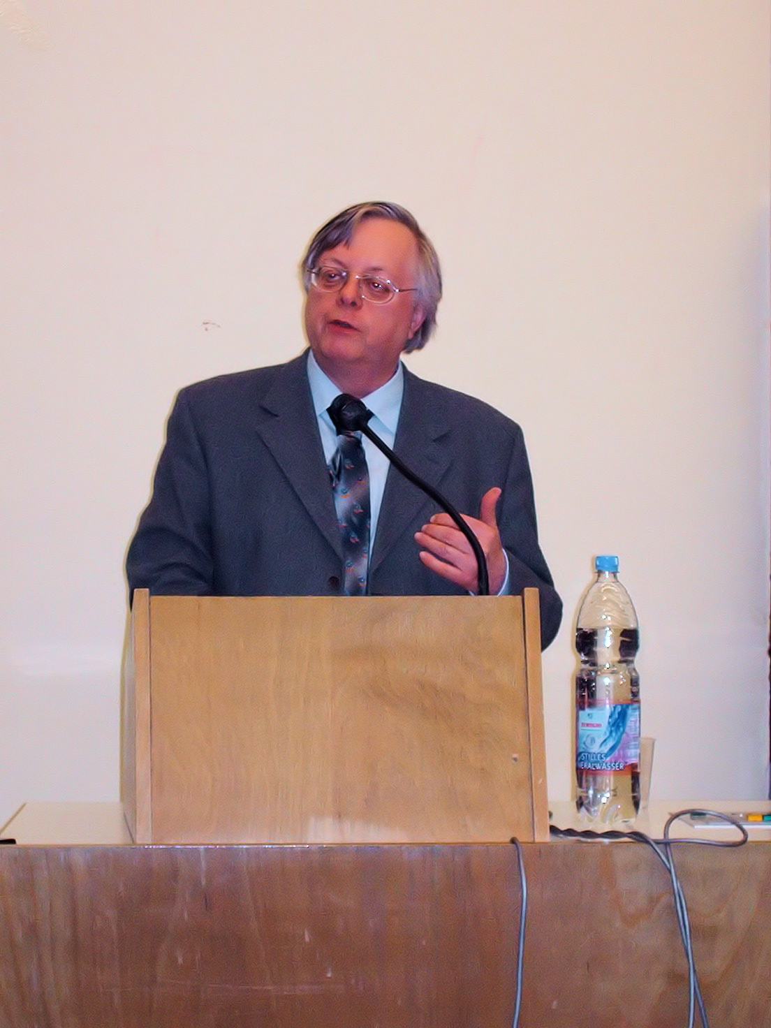 Jürgen Spieß check usage